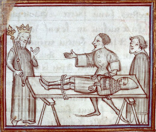 Geoffroy de Charny, wounded, prisoner of Edward III, after his attempt to take control of the town of Calais (1349), miniature from a manuscript of Fleurs des chroniques.